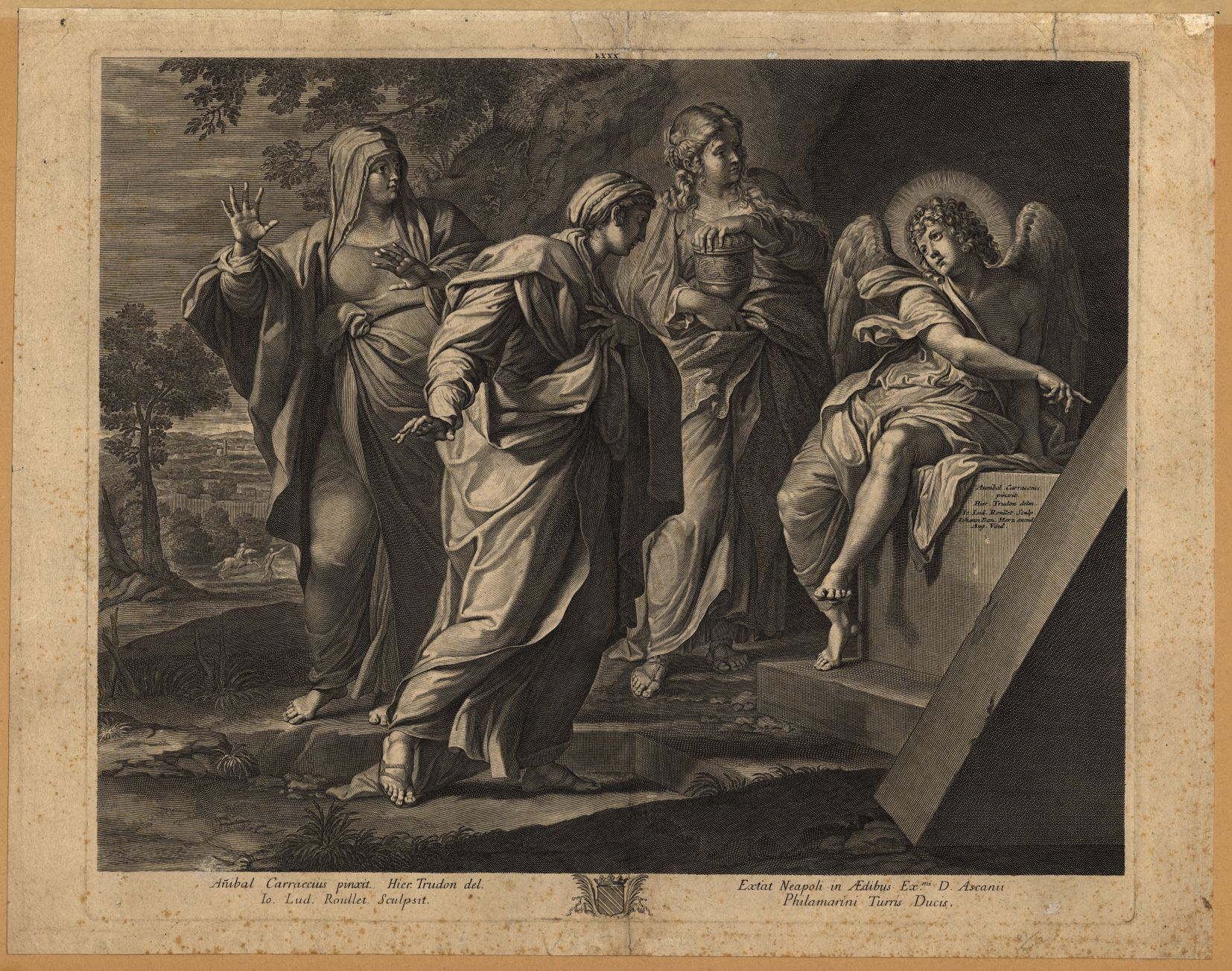 Angel announcing the resurrection of Christ to the three Marys by French engraver Jean-Louis Roullet (1645-1699) after Annibale Carracci (1580-1609)